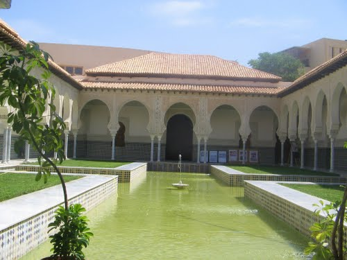 zianid palace in Tlemcen, Algeria (middle age)